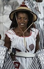 Delegation of Burkina Faso at the 2016 Summer Olympics opening ceremony.